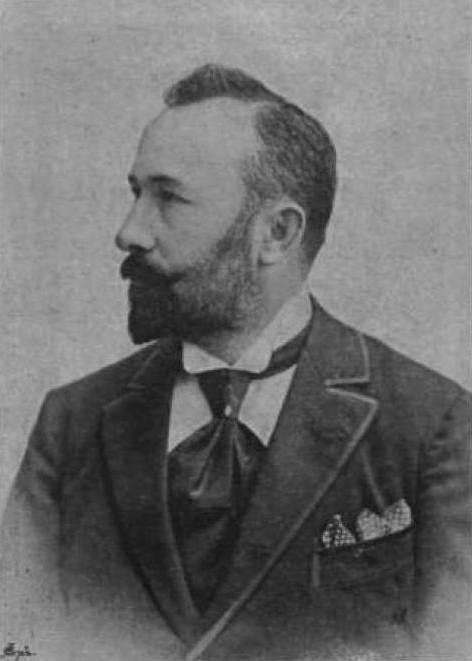 The politician József Sándor